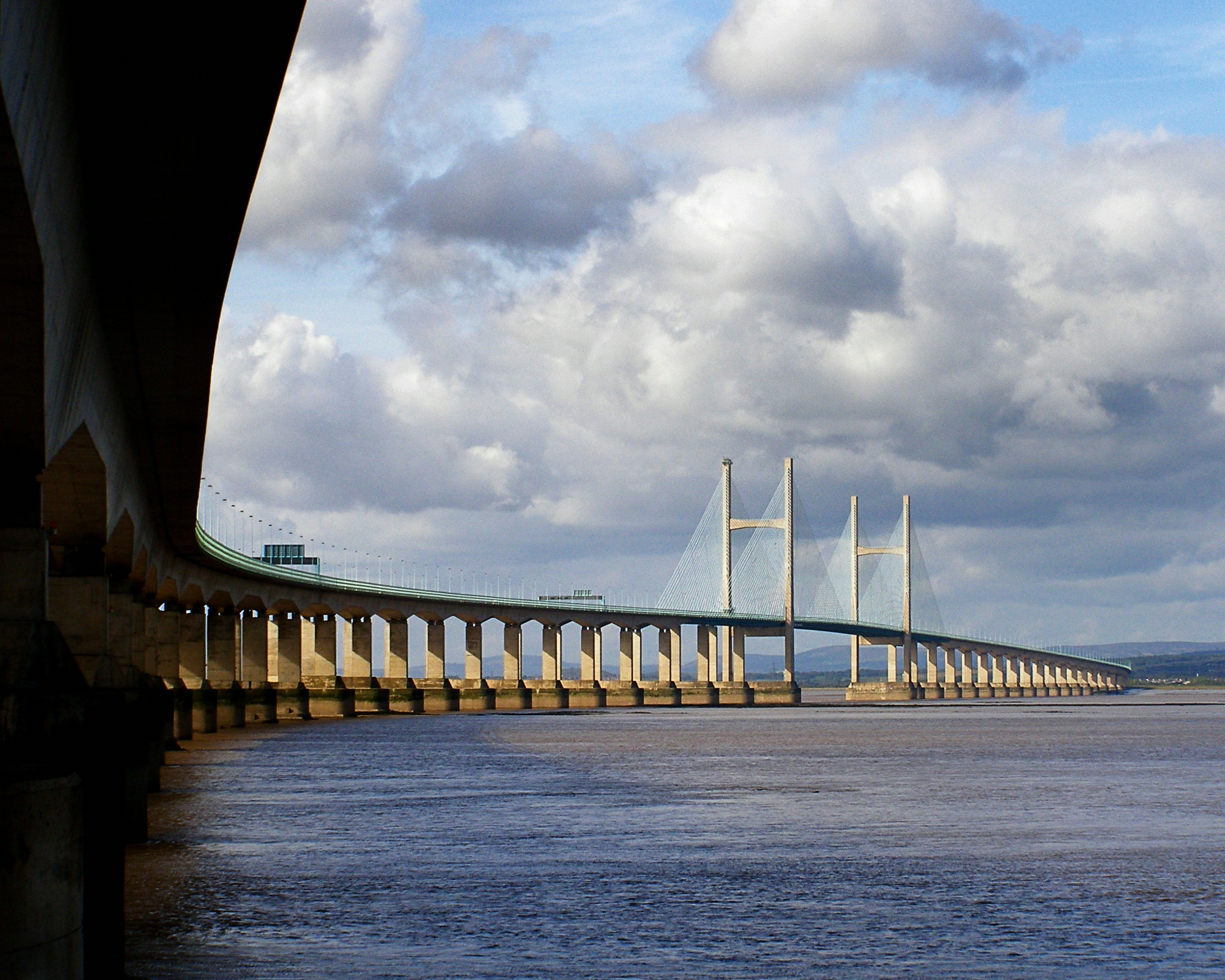 New Severn Bridge